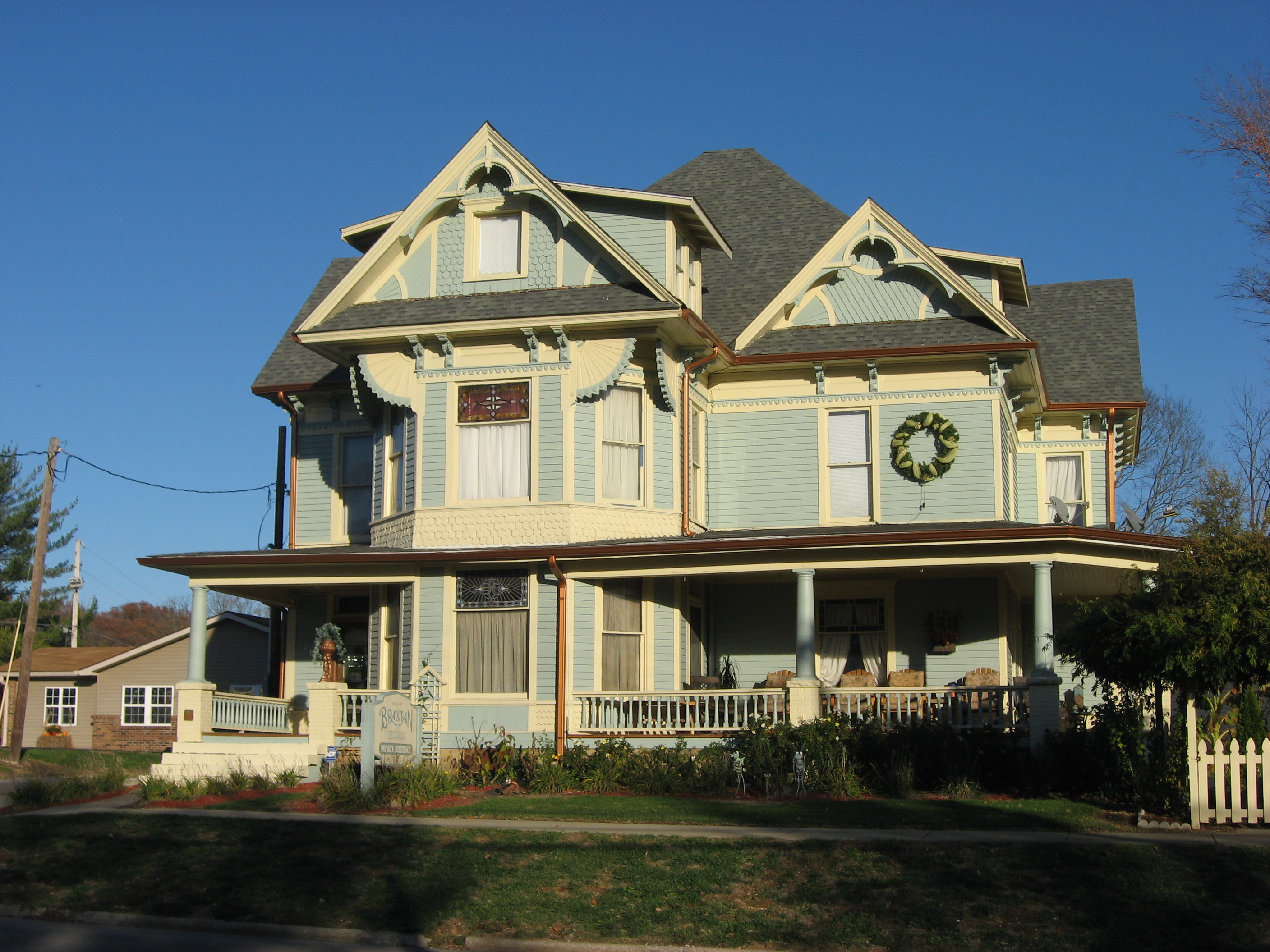 Front and a slight bit of the southern side of the Thomas Newby Braxtan House, located at 210 N. Gospel Street (State Road 37) in Paoli, Indiana, United States. Built in 1893, it is listed on the National Register of Historic Places.